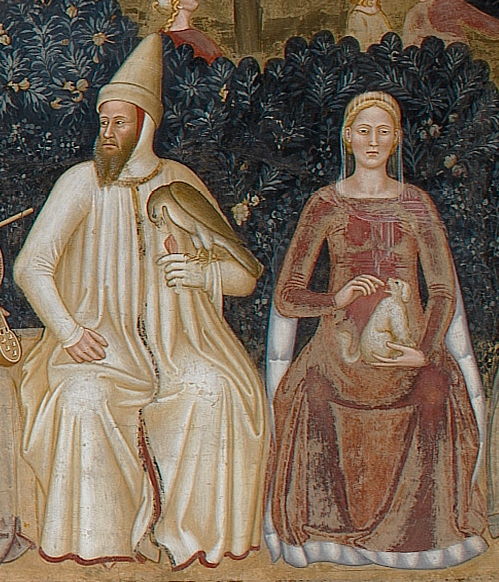 Behind the preachers, in the right middleground, there is a group of worldly pleasure-seekers (above St. Thomas and the heretics) and two more Dominican figures (above St. Peter and St. Dominic).The faithful are being blessed and ushered to the gate of Heaven, where St. Peter welcomes them.